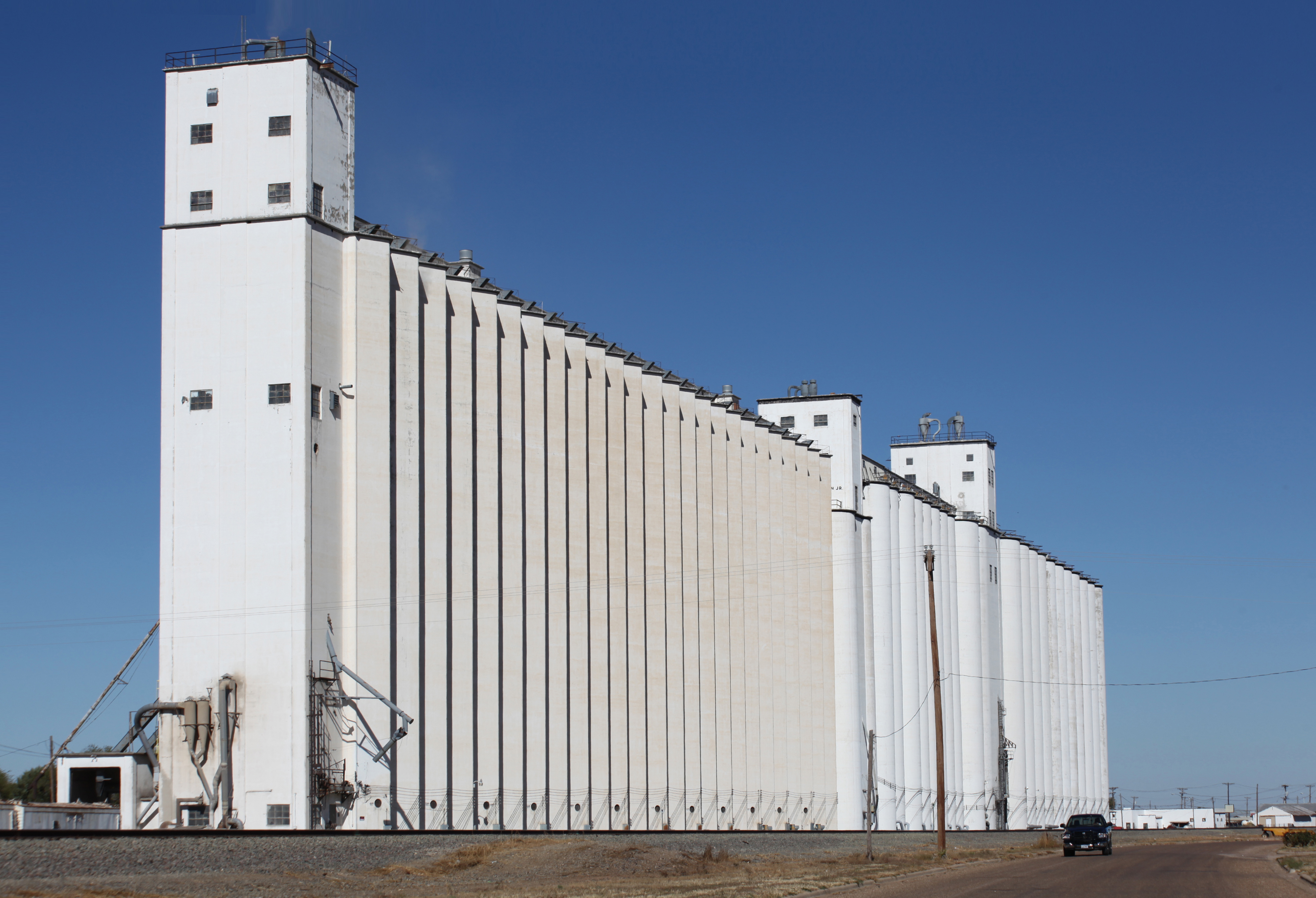 Large grain elevator in Bovina, Texas.